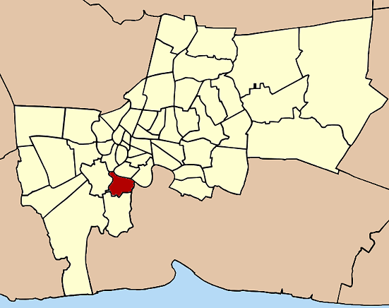 Map of Bangkok, Thailand, highlighting the district (khet) Rat Burana (ราษฎร์บูรณะ)